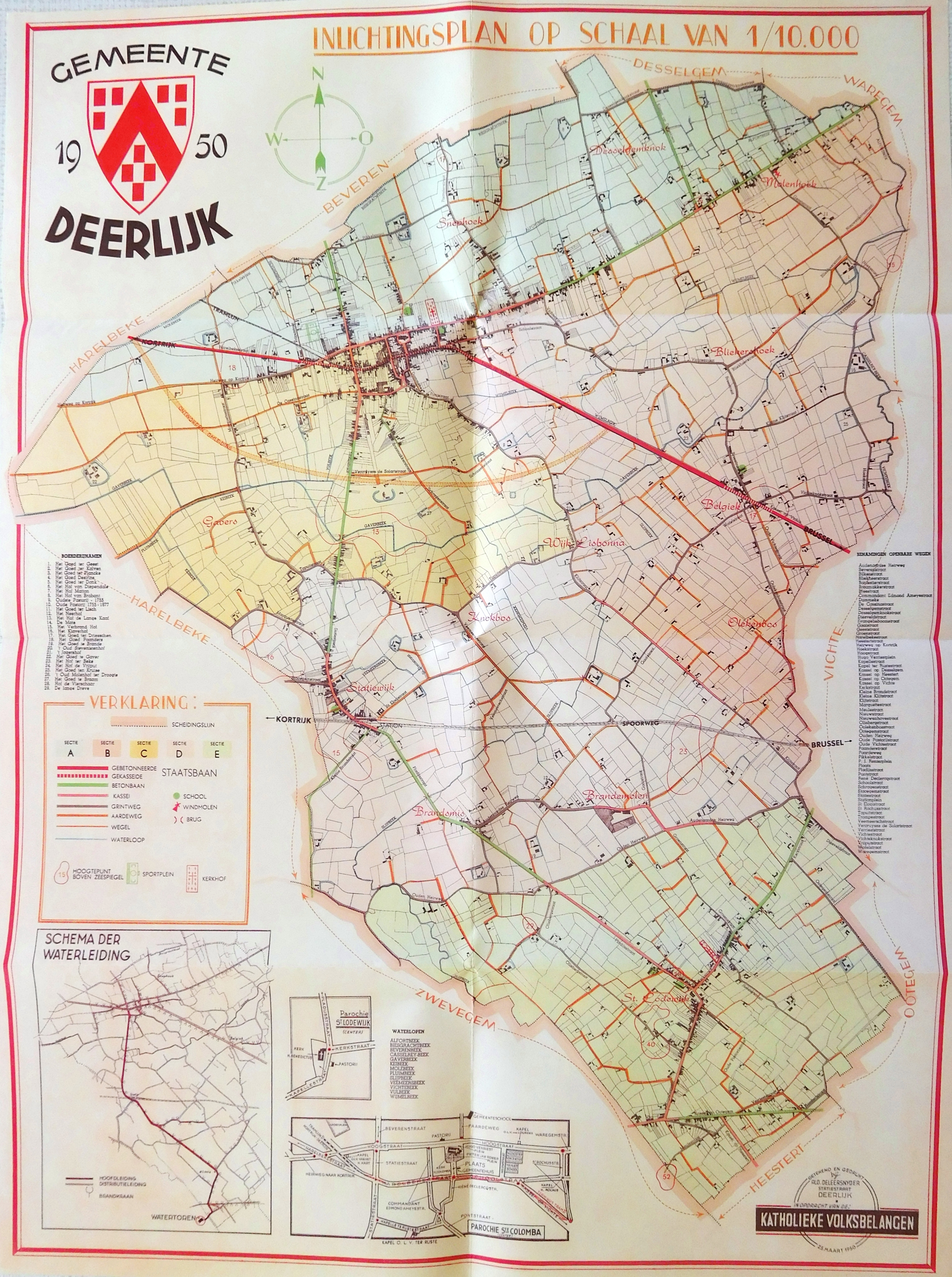 Municipal map of Deerlijk anno 1950